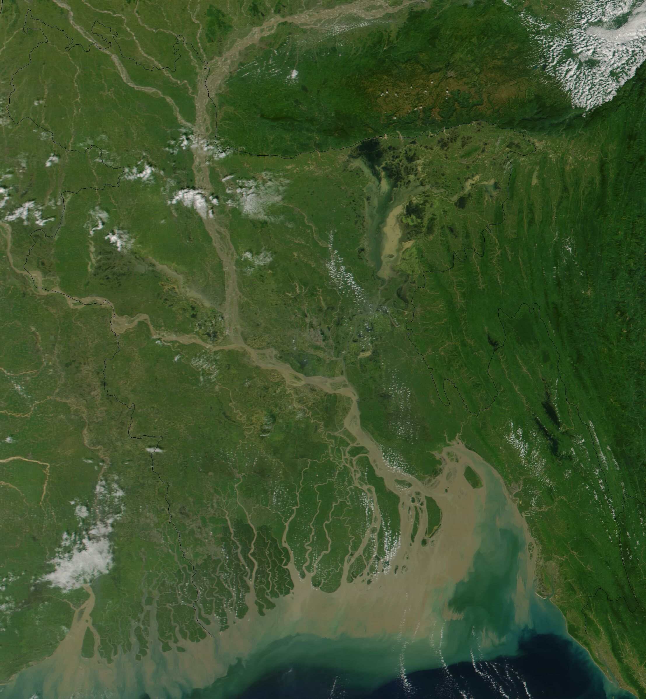 Satellite image of Bangladesh in October 2001 True-color MODIS image from October 23, 2001. Lush with vegetation to the south, numerous rivers, brown with churned up sediment, flow into the valley of the Brahmaputra River in Assam, India. The Brahmaputra turns southward at the border of Bangladesh and is soon joined by the Ganges River, flowing in from image left. The mighty river splits into numerous channels as it runs out toward the Bay of Bengal, giving the region the name "Mouths of the Ganges." Vast amounts of sediment are being emptied into the Bay by the river, and greenish blue swirls could be a mixture of sediment and phytoplankton.